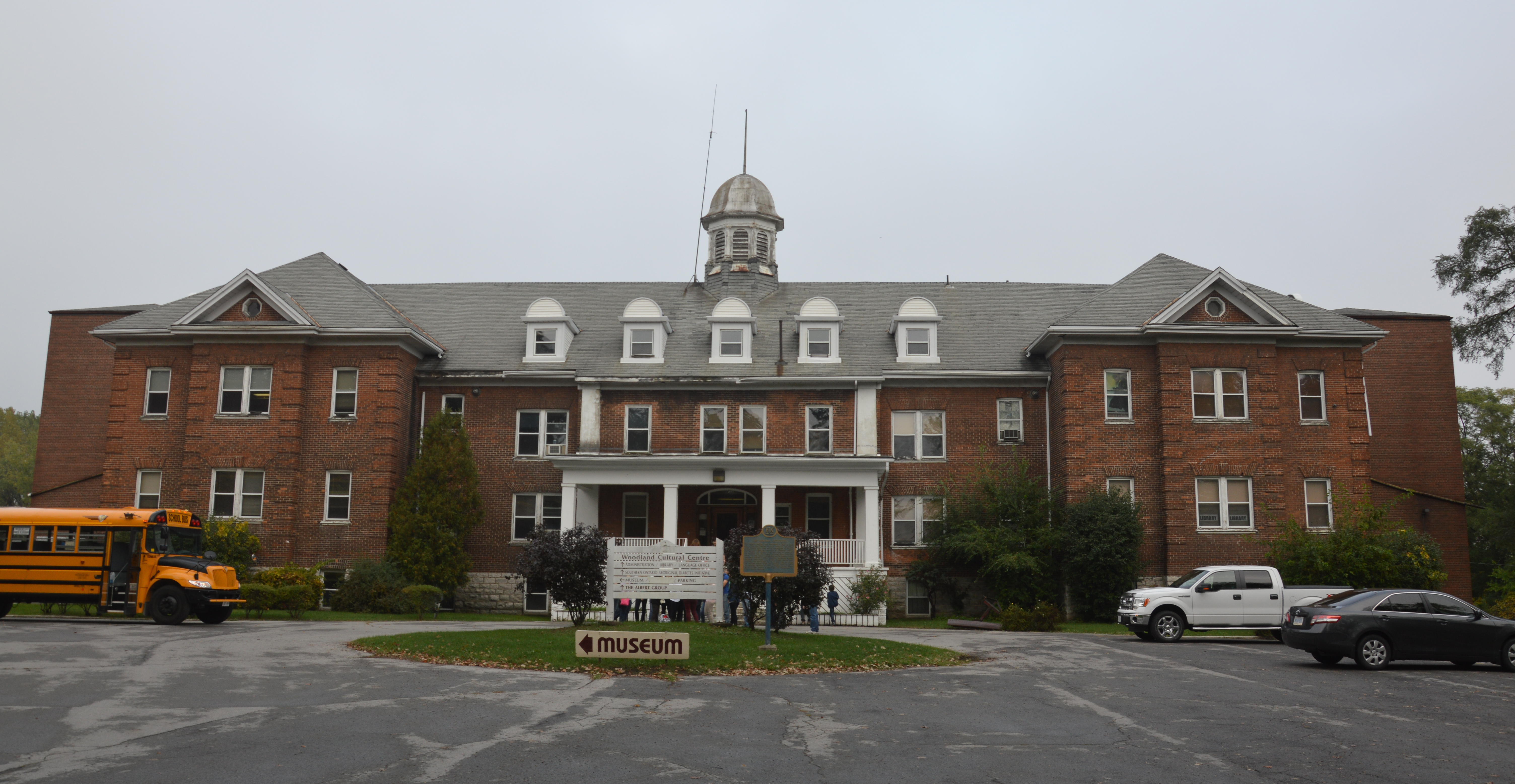 The Mohawk Institute (Indian Residential School) or the "mush hole." Although the school was first established in 1831, this building constructed in 1904.